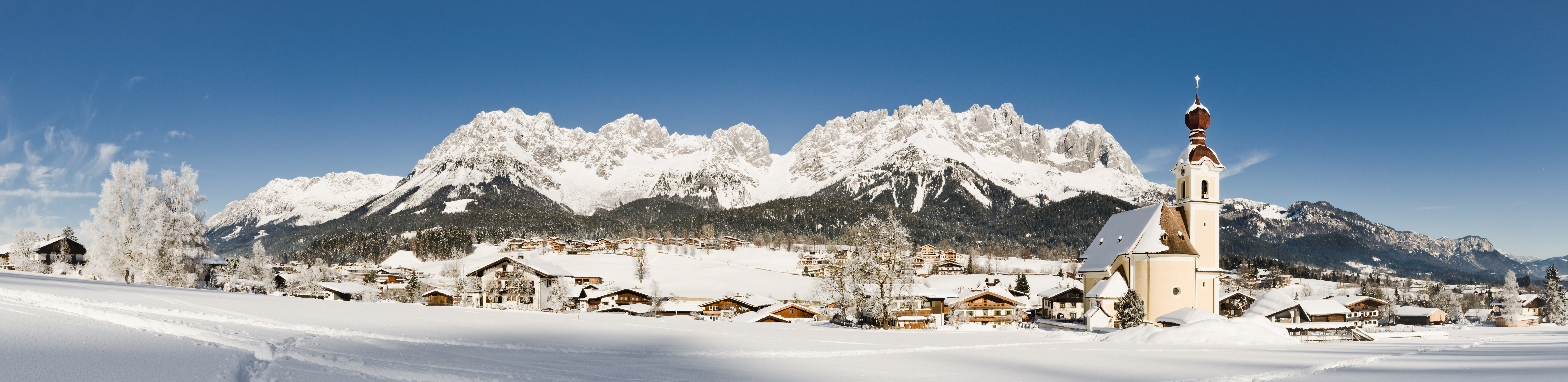 Village of Going am Wilden Kaiser. View towards North covering about 167 degrees.